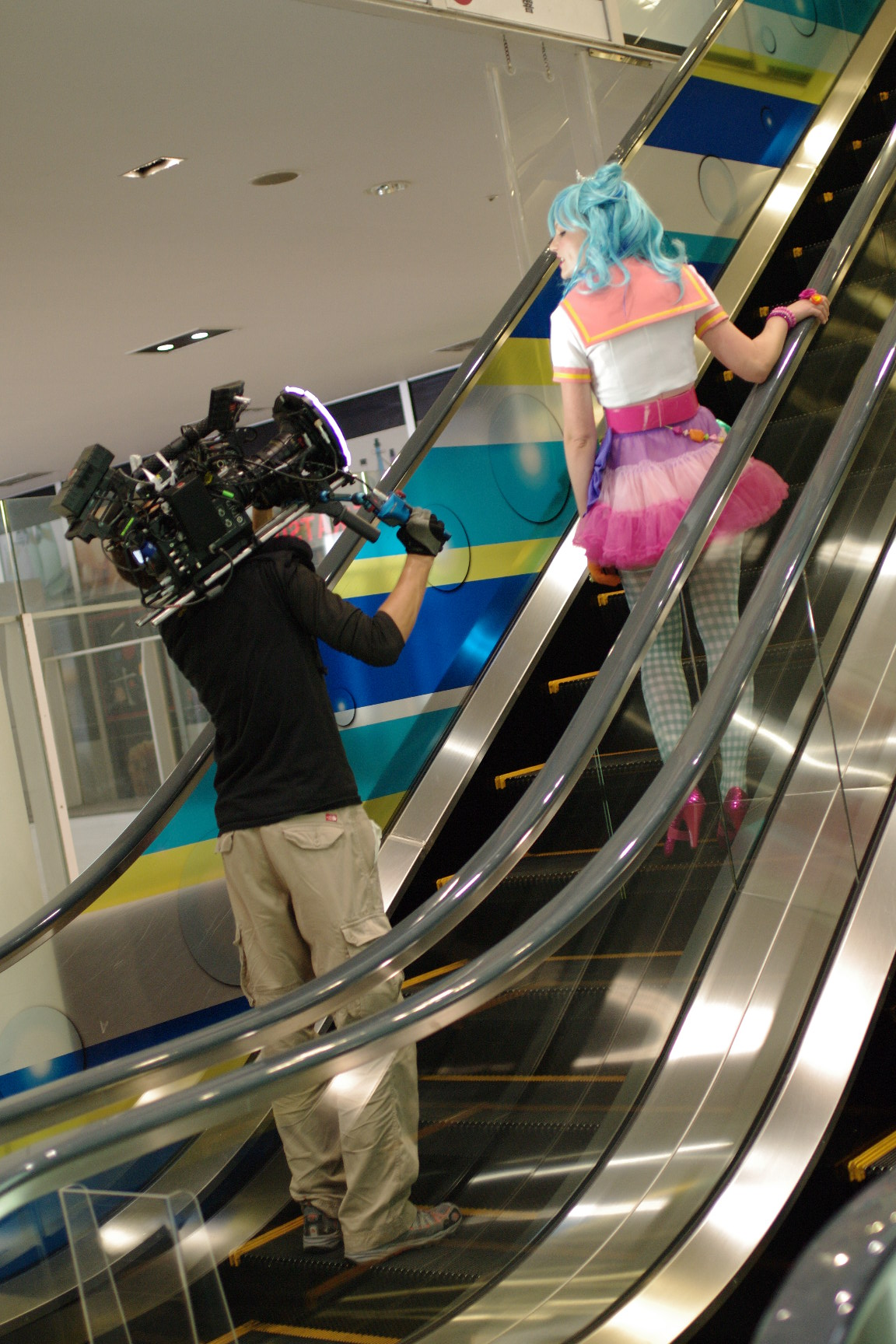 “Akihabara Majokko Princess” casting Kirsten Dunst 何のコスプレかは不明